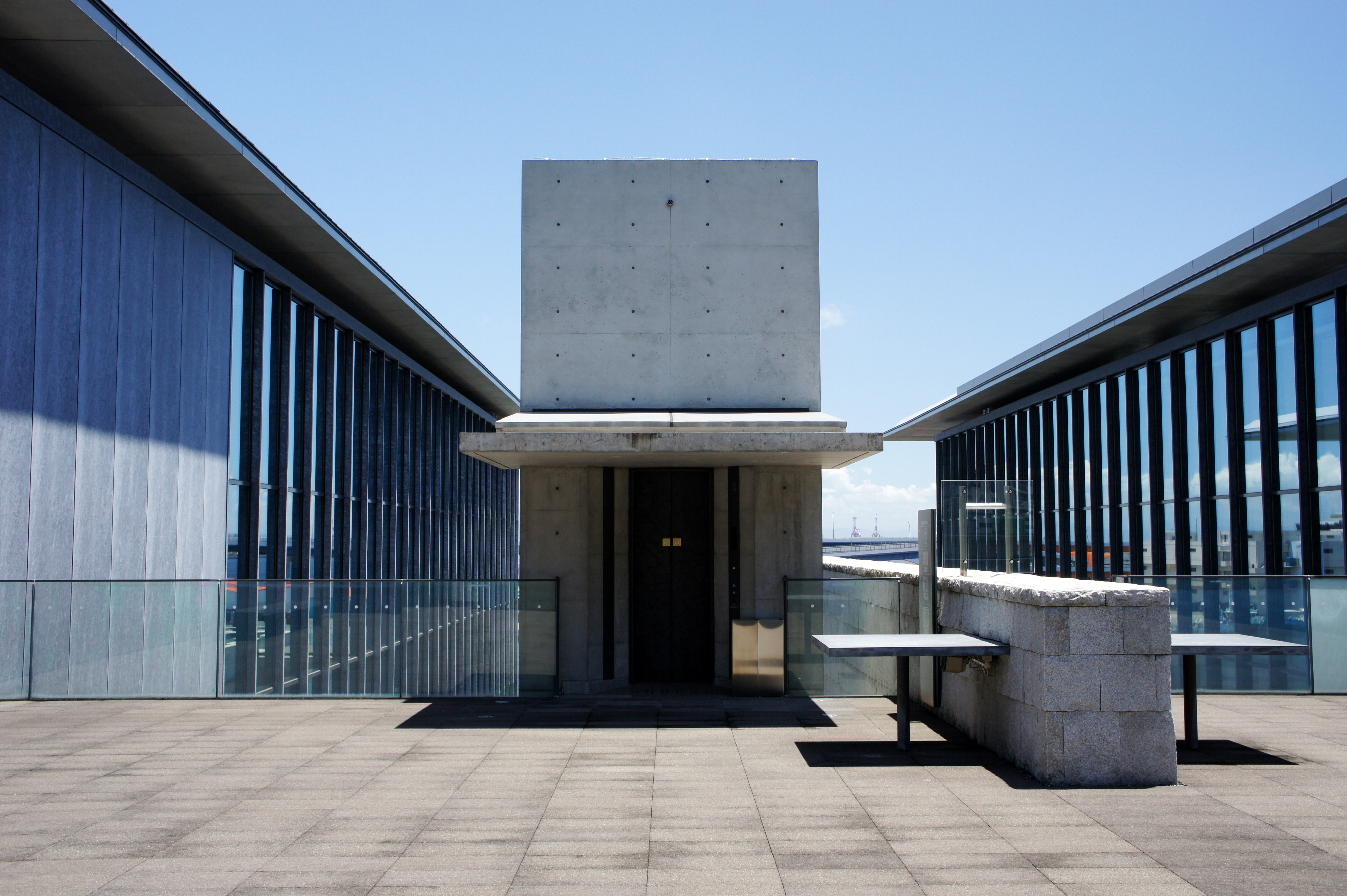 Hyogo Prefectural Museum of Art in Kobe, Hyogo prefecture, Japan